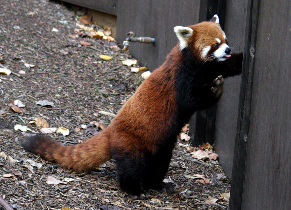 Simon the red panda